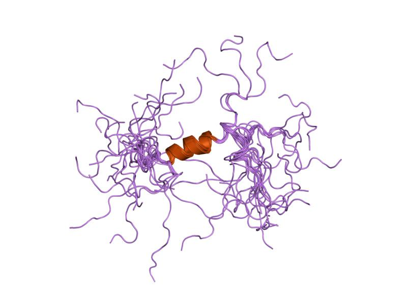 Cartoon representation of the molecular structure of protein registered with 1jo6 code.